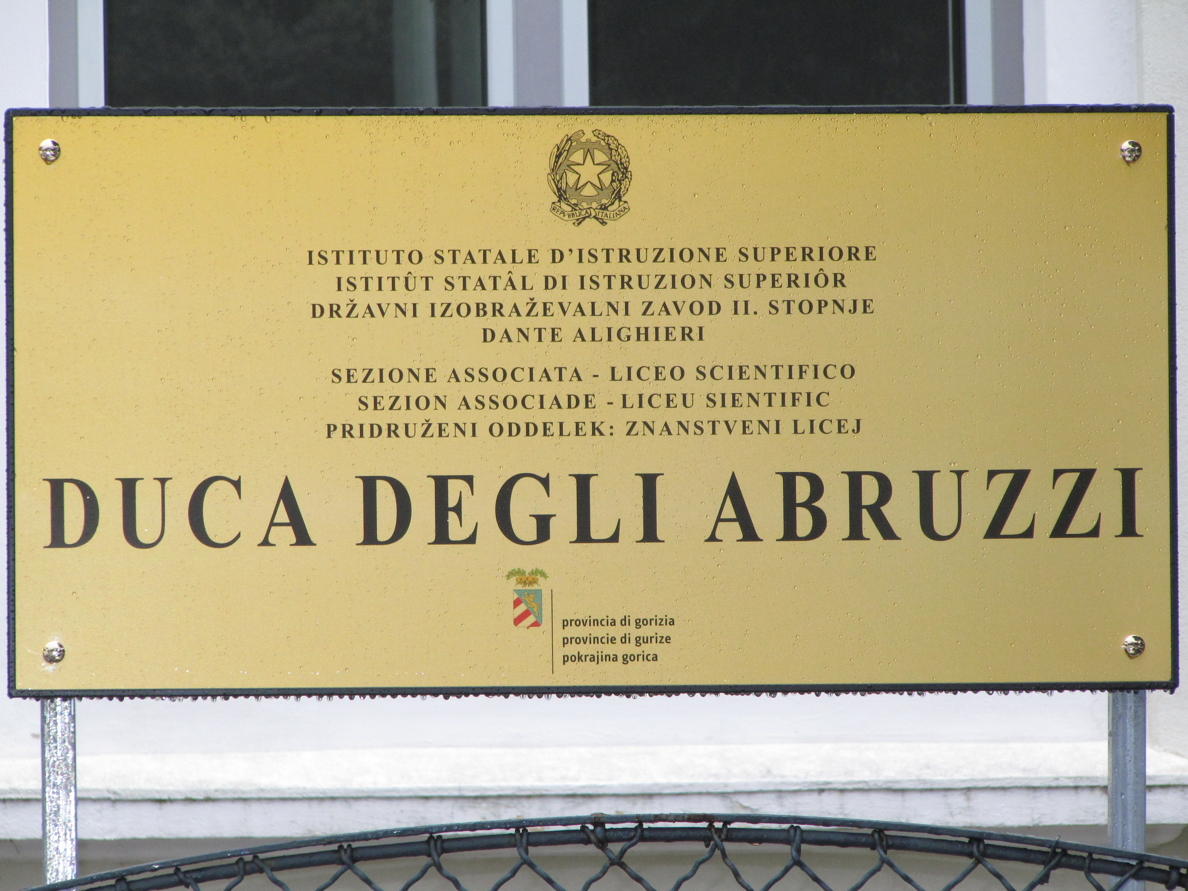 Multilingual sign of a school in Gorizia, Italy. The languages are italian, furlan and slovenian.